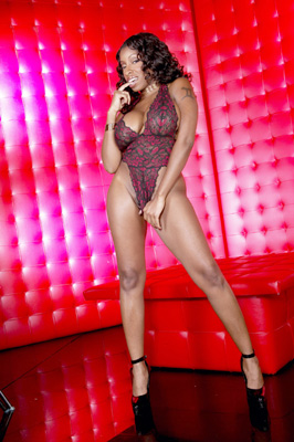 American pornographic actress Vanessa Blue